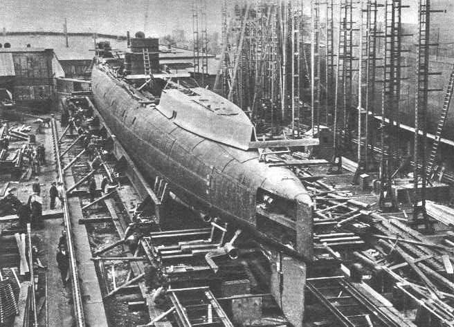 Orzeł in De Schelde